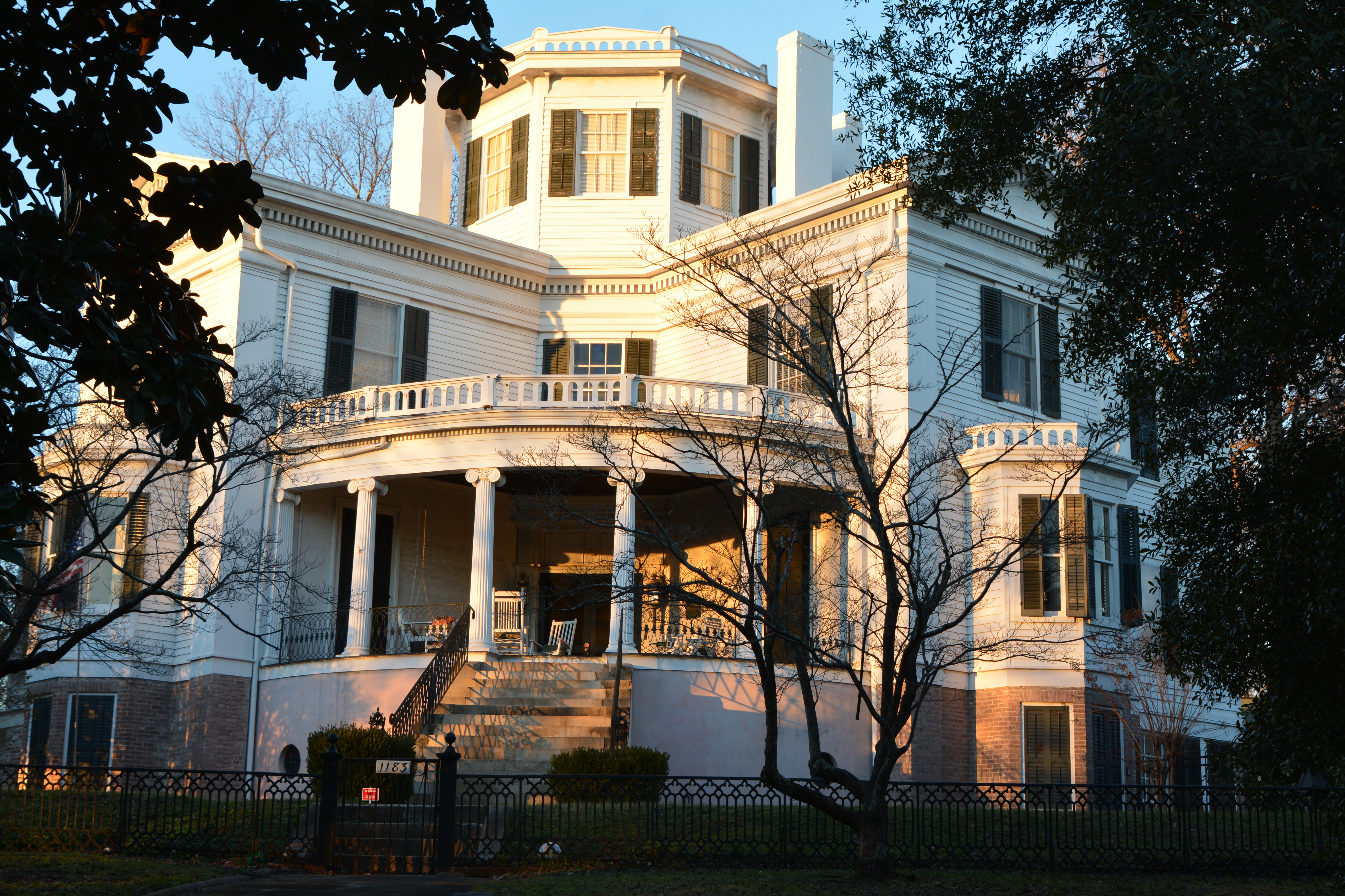 House on College St., Macon Historic District, Macon, Georgia, U.S.